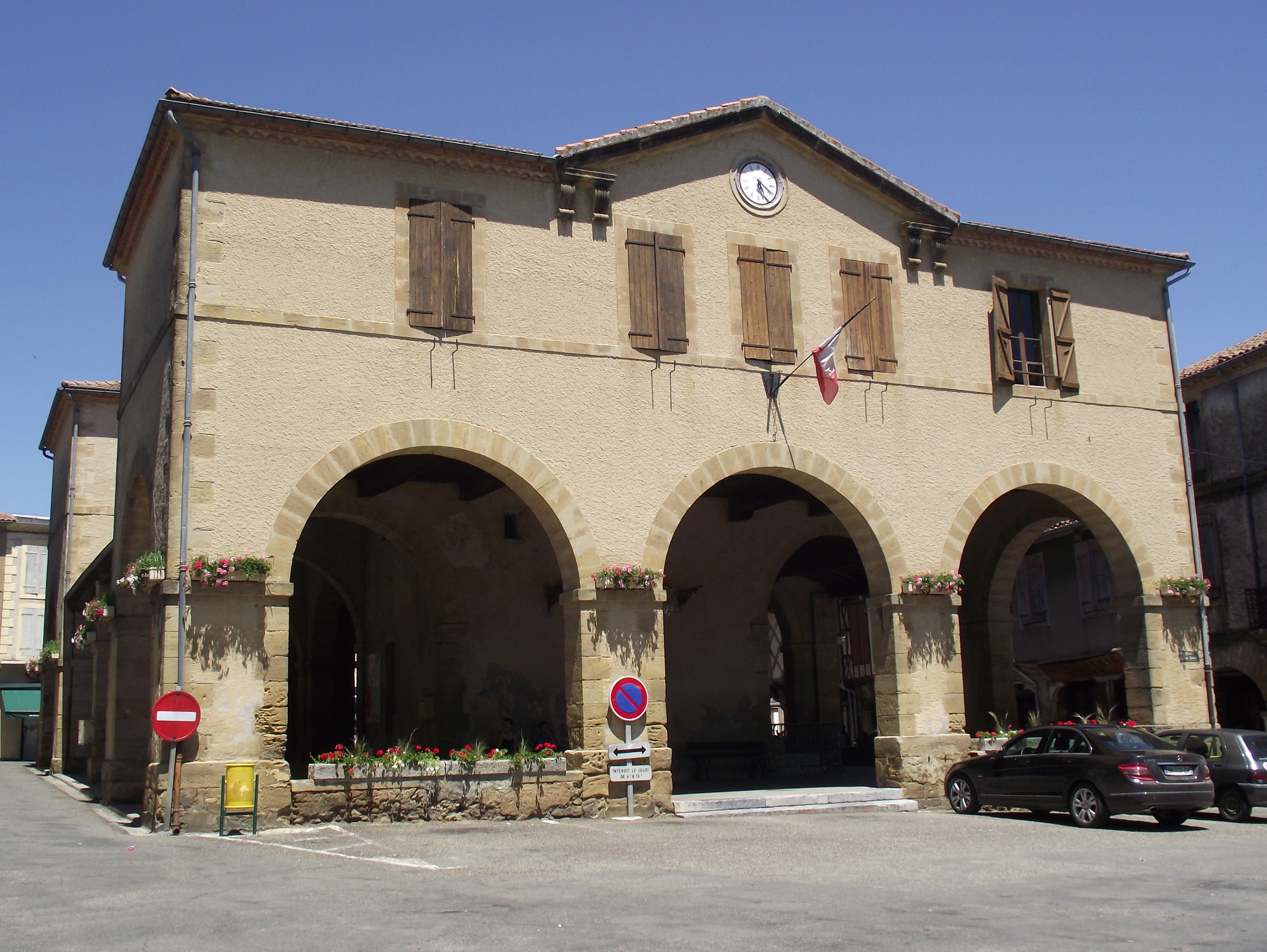 Miélan Town Hall, Gers, France